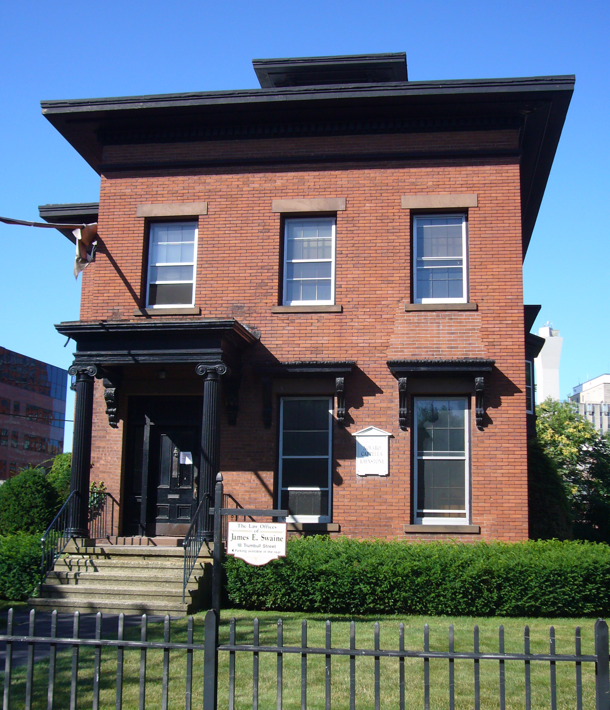 Lafayette Mendel House, New Haven, CT, USA. Exterior